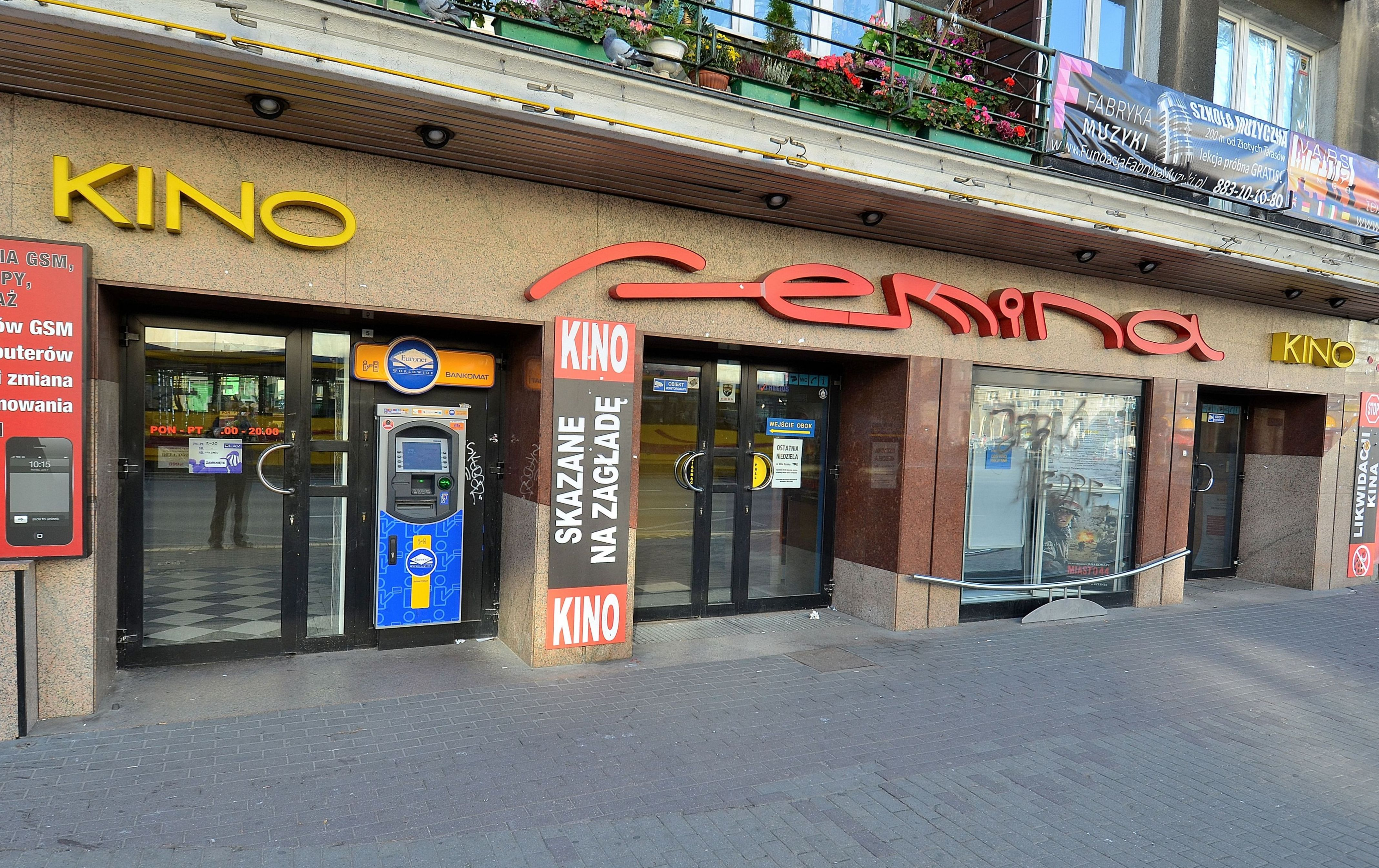 Entrance to Femina Cinema at at 115 Solidarności Avenue in Warsaw